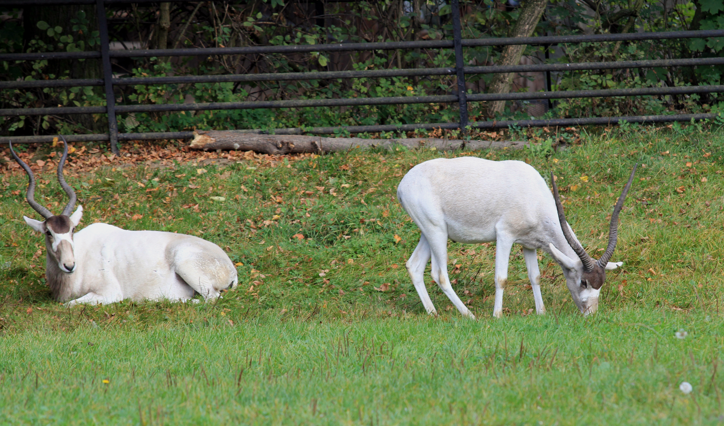 Addax (Addax nasomaculatus) in Prague Zoo, Czech Republic